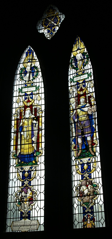 Glasgow Cathedral, Glasgow, Scotland - stained glass in choir